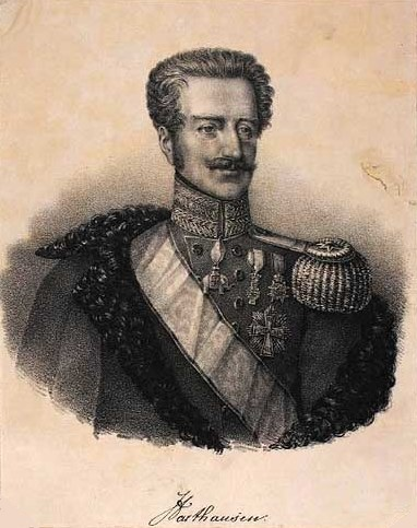 Christian Ove Haxthausen (1777-1842), Danish Count, Major General, and Lord Chamberlain